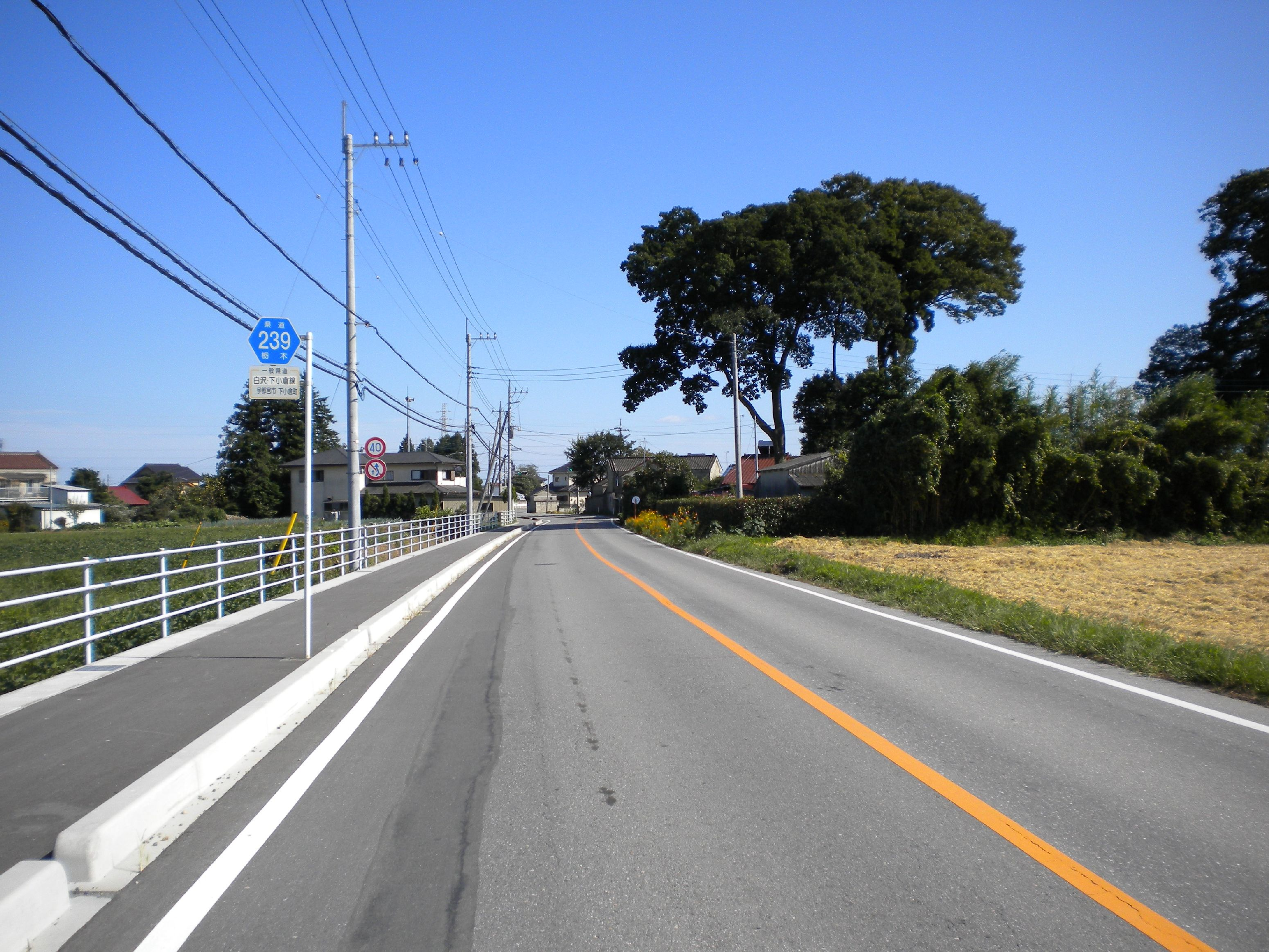 The Tochigi Prefectural Road Route 239 in Shimokoguracho, Utsunomiya city